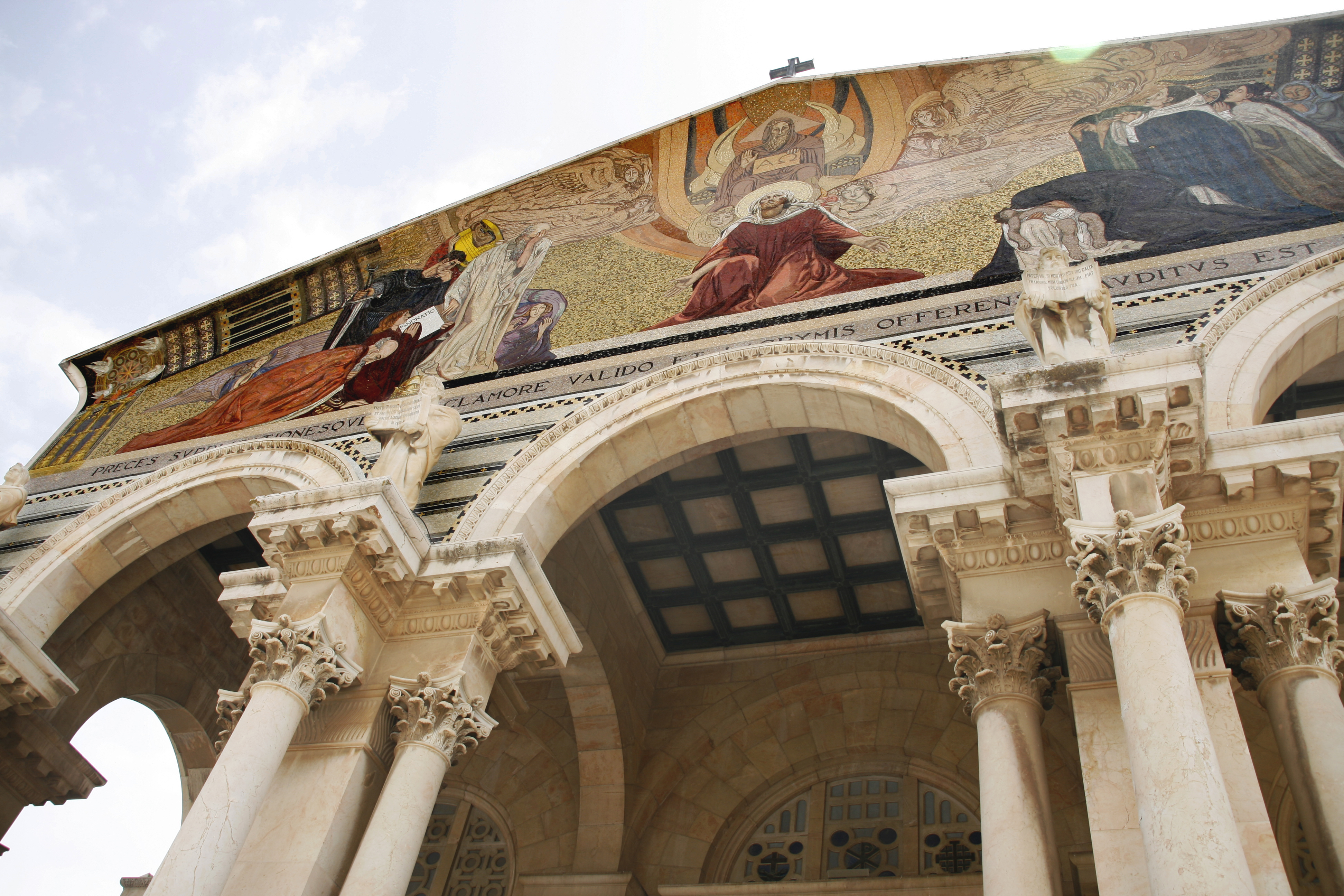 Wiki-tour to mount Olives, Jerusalem